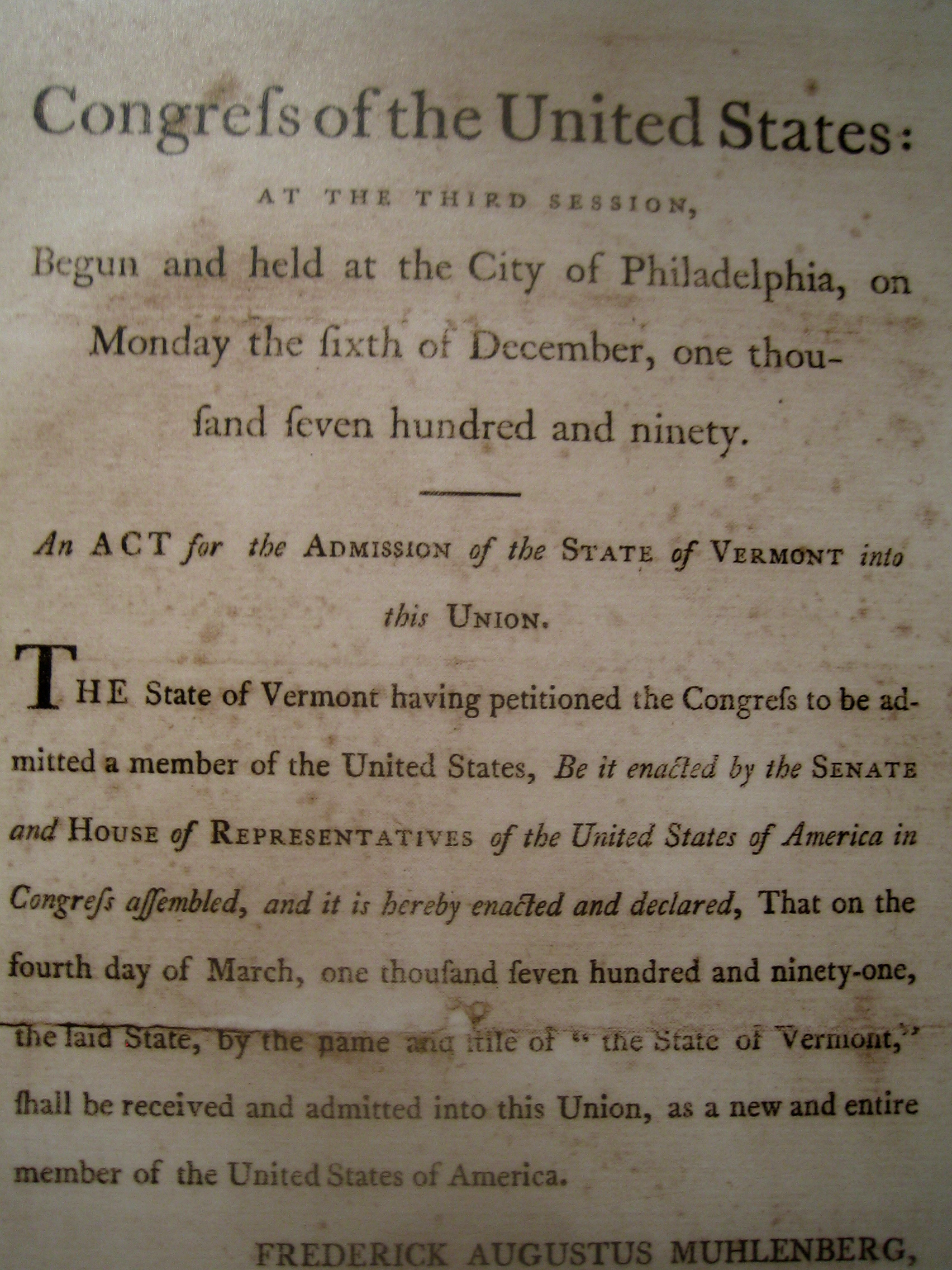 Photograph of the Congressional Act authorizing vermont's admission to the union. Taken by Jim Hood, June 2005. Attribution requested for reproduction.